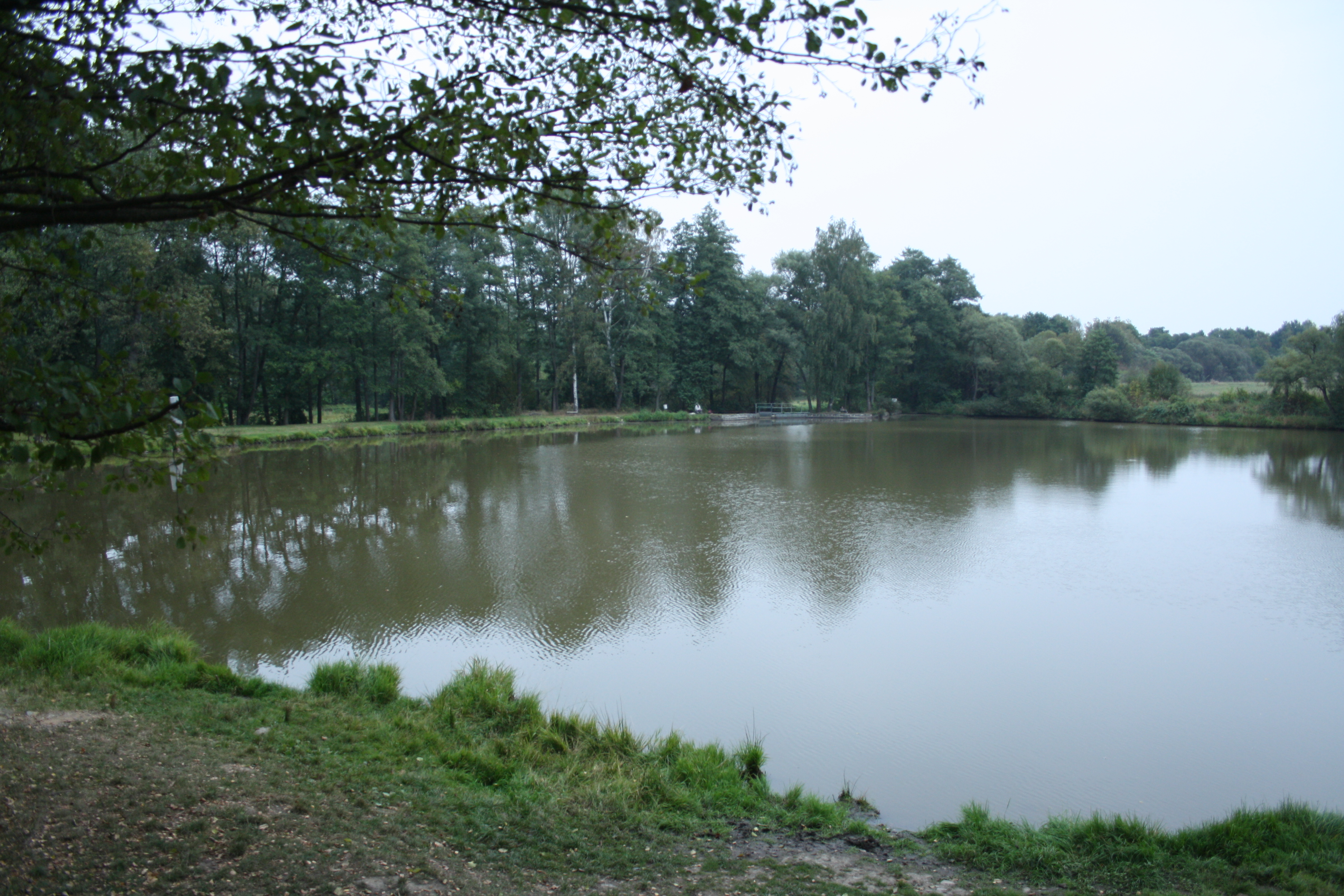 Ležák pond in Ležáky, Czech Republic.